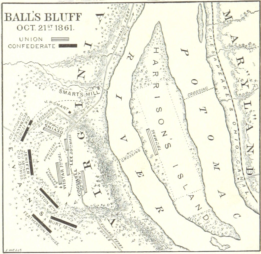 A map of the 1861 Battle of Ball's Bluff.